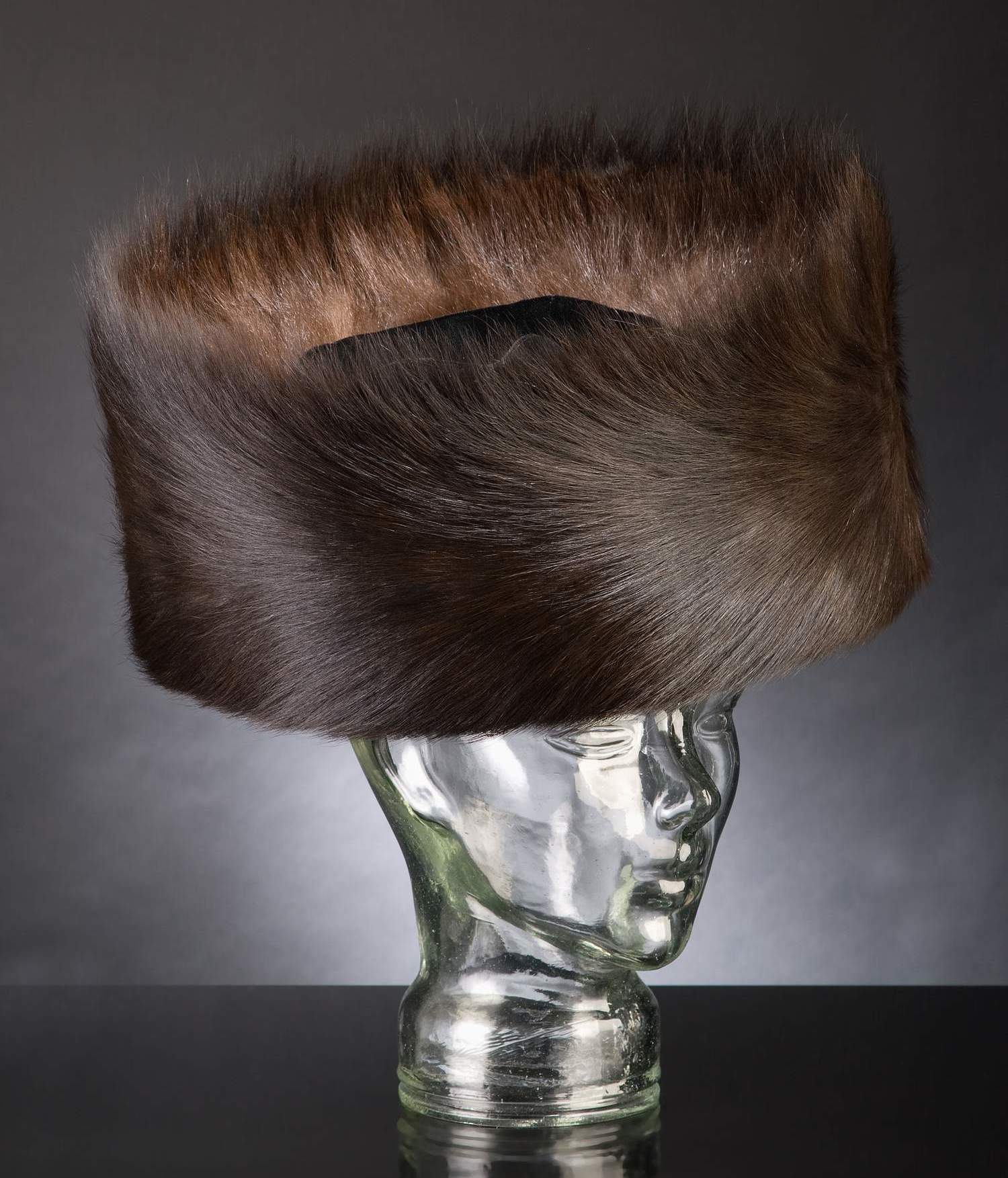 Shtreimel, made of sable tails